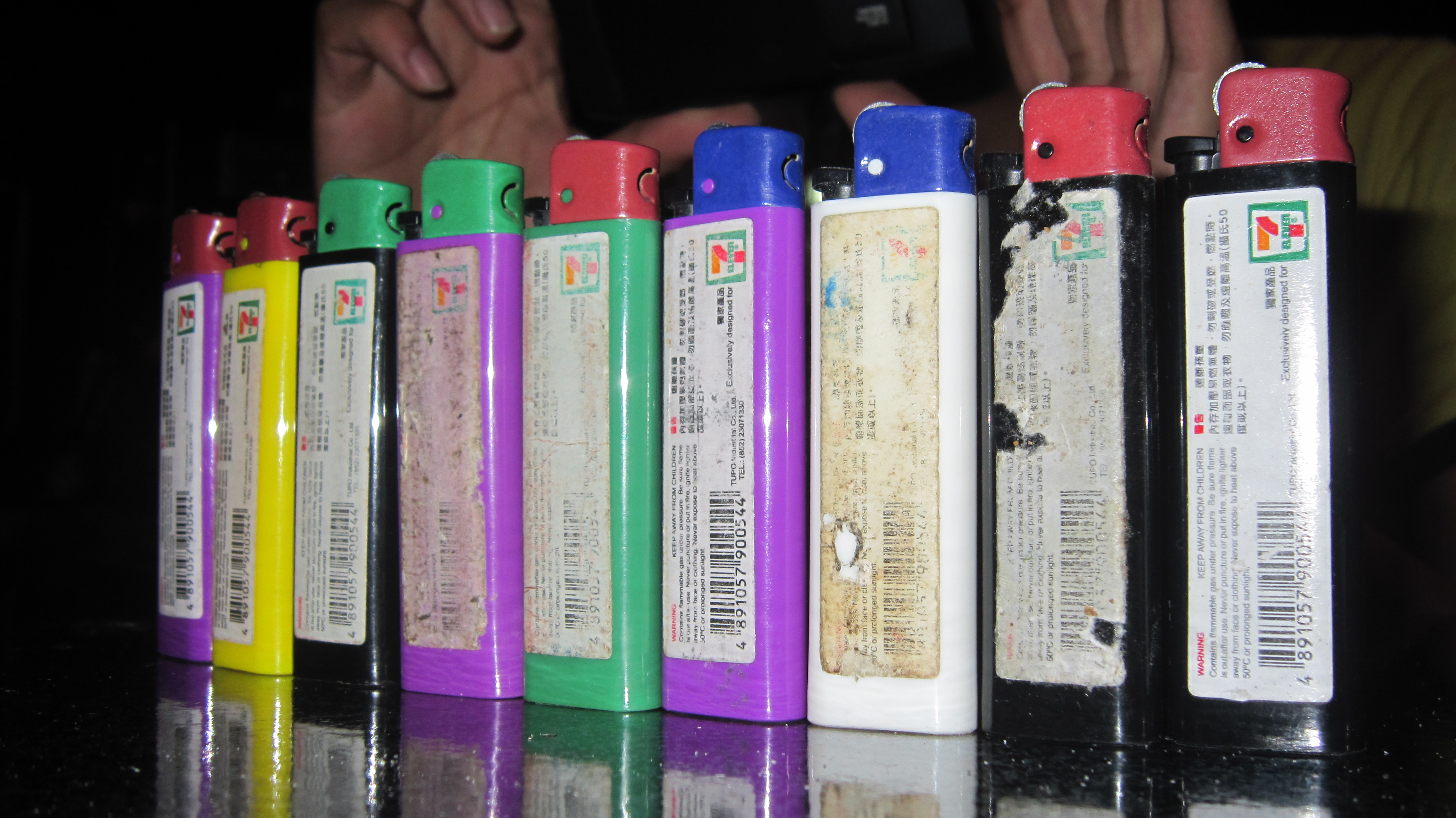 Lighters of 7-Eleven